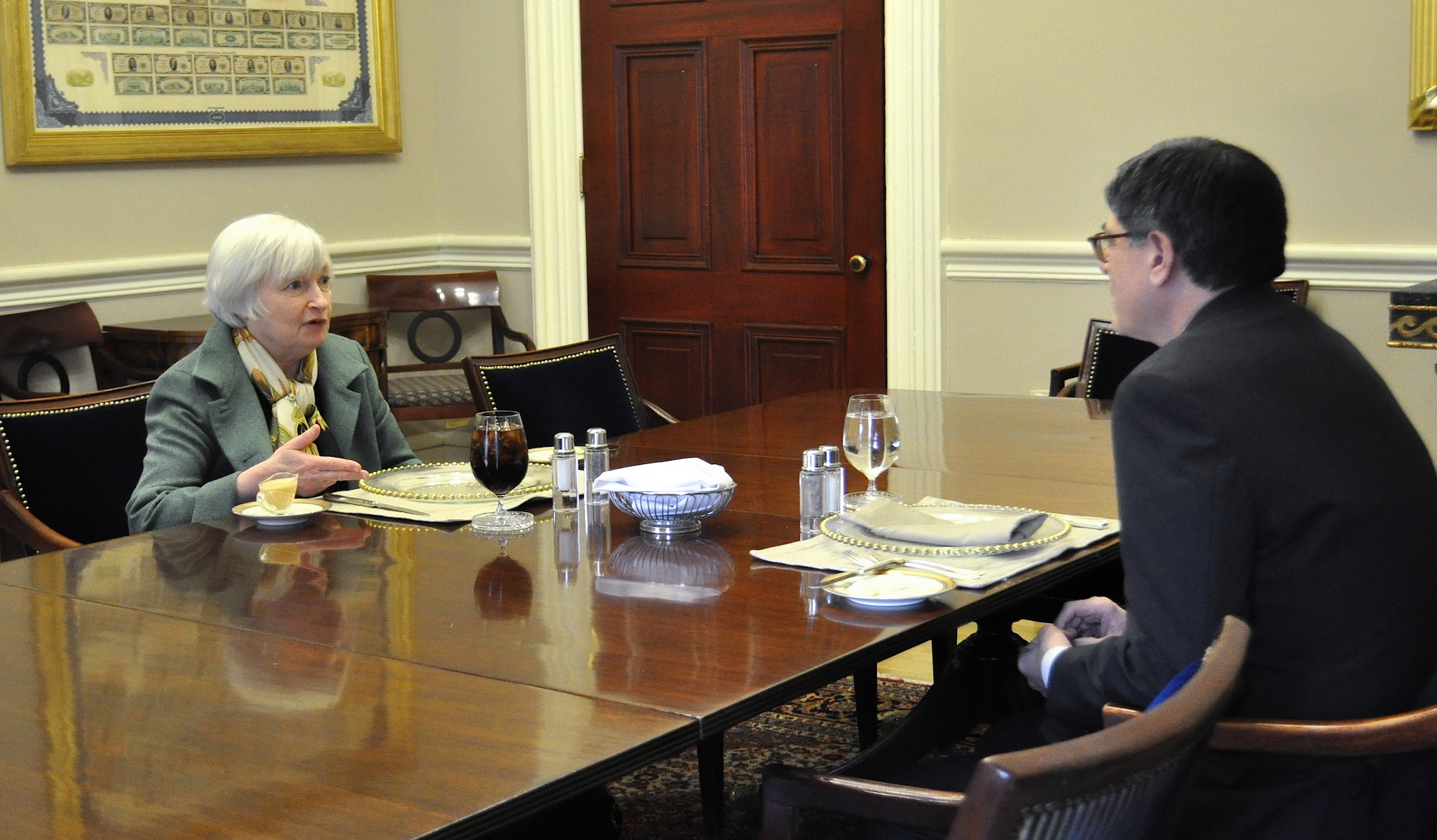 Secretary Lew and Federal Reserve Chair Janet Yellen, 5 February 2014.